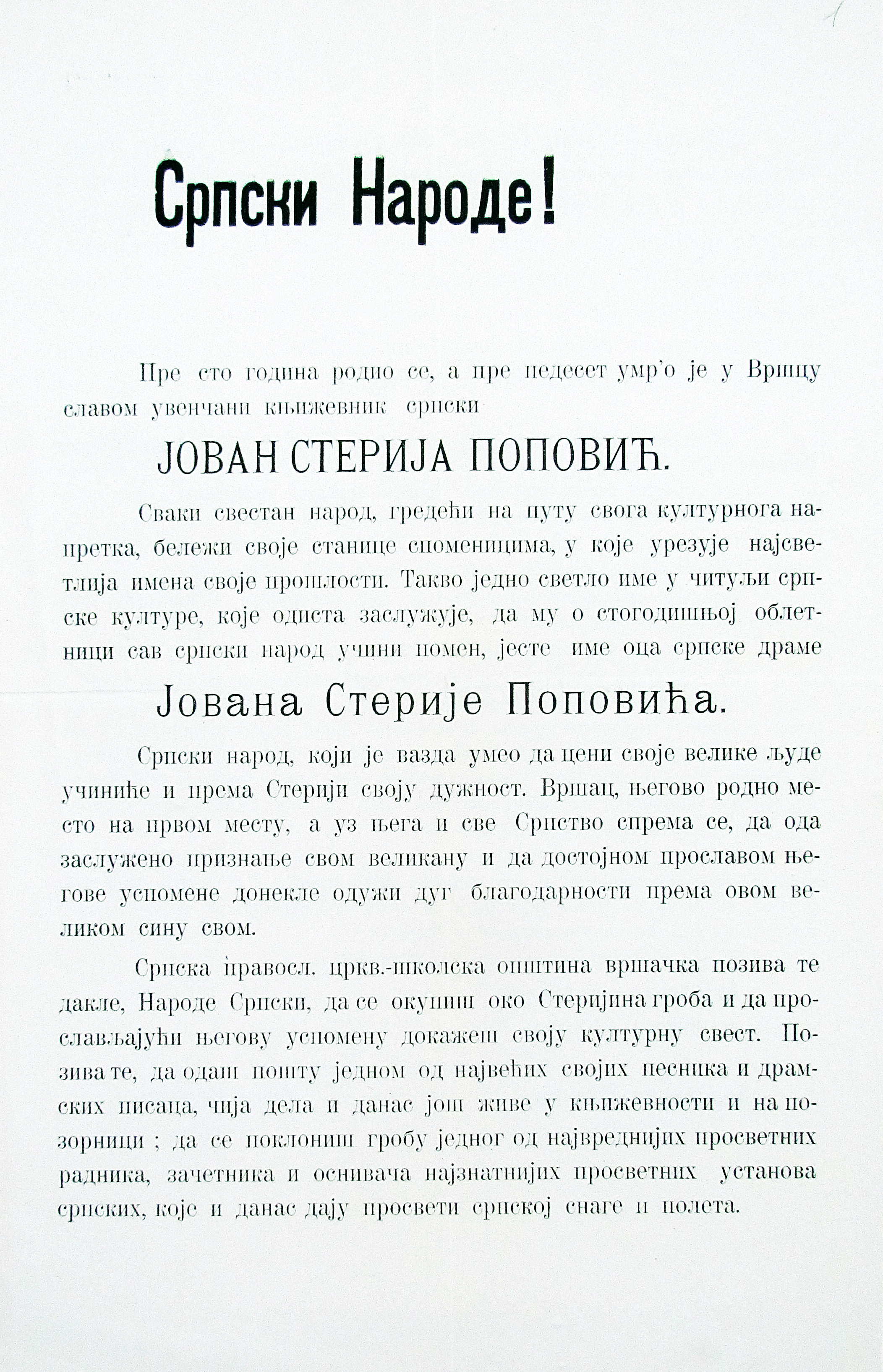 100th Anniversary of the Birth and 50th Anniversary of the Dead of the Death of Jovan Sterija Popović, 1906